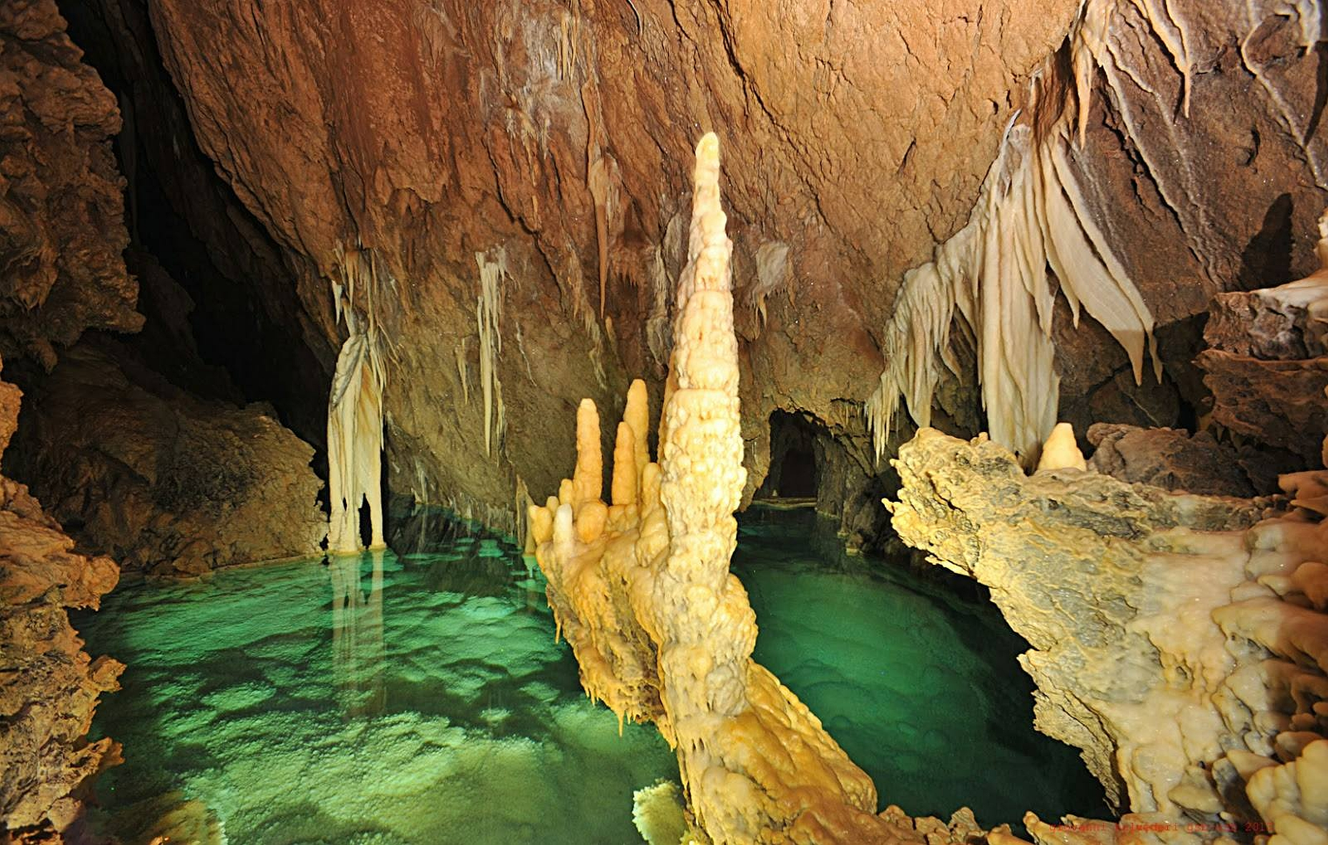 Пећина Говјештица у Рогатици This image was uploaded as part of Trace of Soul 2015.